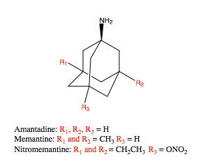 SAR of amantadine and related compunds